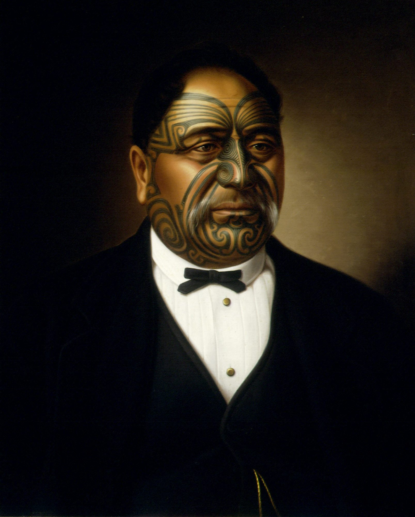 Portrait of Paora Tuhaere, by